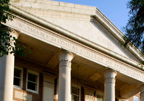 View of the front of the Falls Center, formerly the Woman's medical College of Pennsylvania